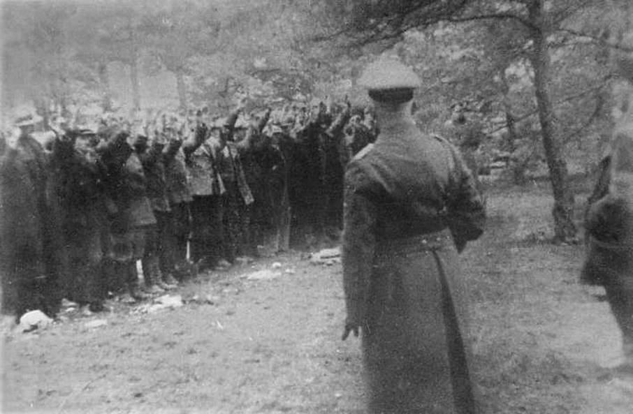 Piaśnica (Groß Piasnitz) in the Darzlubska Wilderness - place of the one of the greatest nazi crimes in Polish Pomerania. Polish convicts before the execution. The picture was taken by Waldemar Engler - volksdeutscher from Wejherowo and member of the SS (he was photographer in civilian life) Prints of photos that he made in Piaśnica were stolen by his Polish workers.